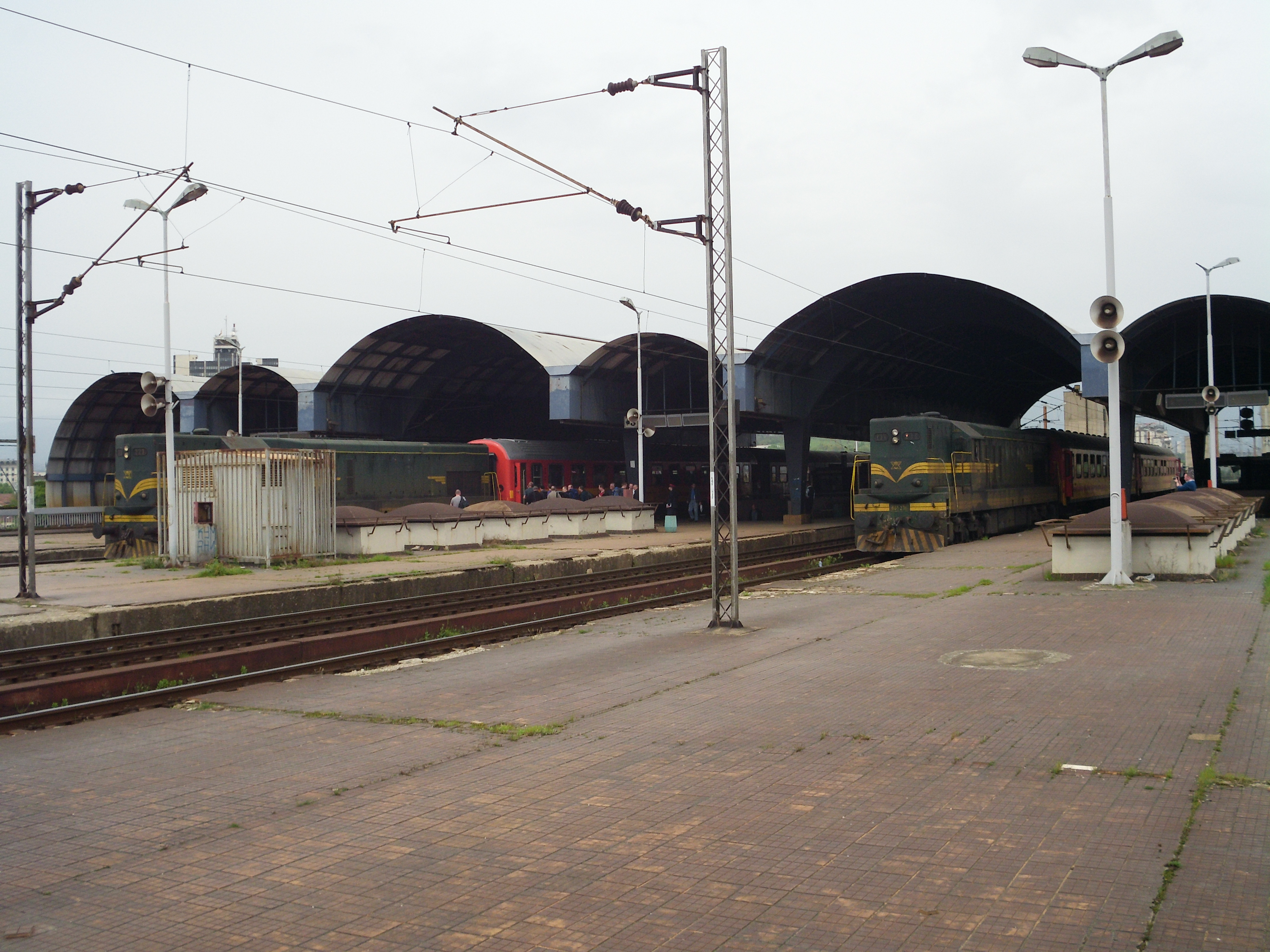 Platforms of a train station in Skopje, Macedonia, with two passenger trains.